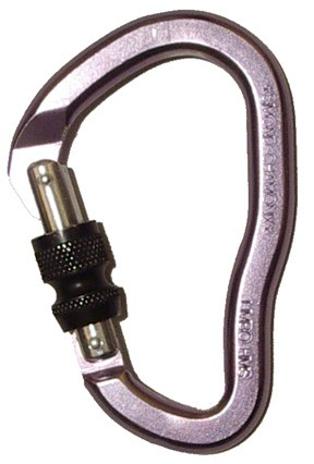 Screwgate carabiner on white background